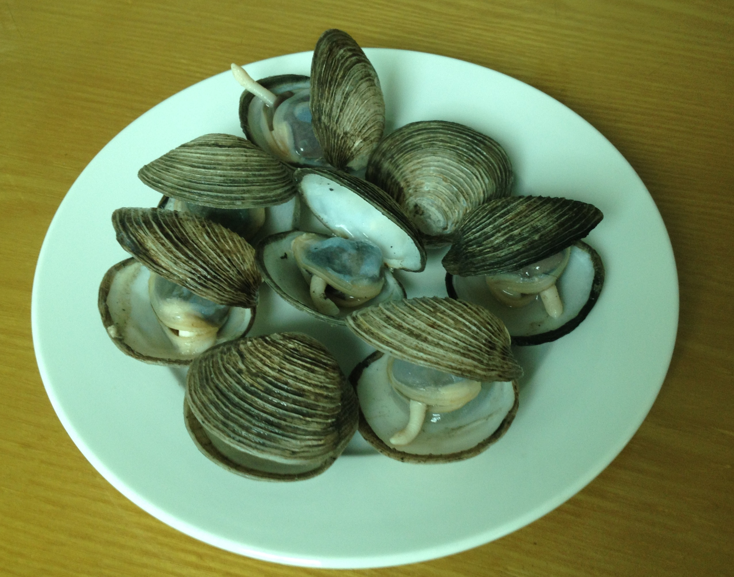 Austriella corrugata (cooked). A local signature dish in Ha Long Bay, Viet Nam